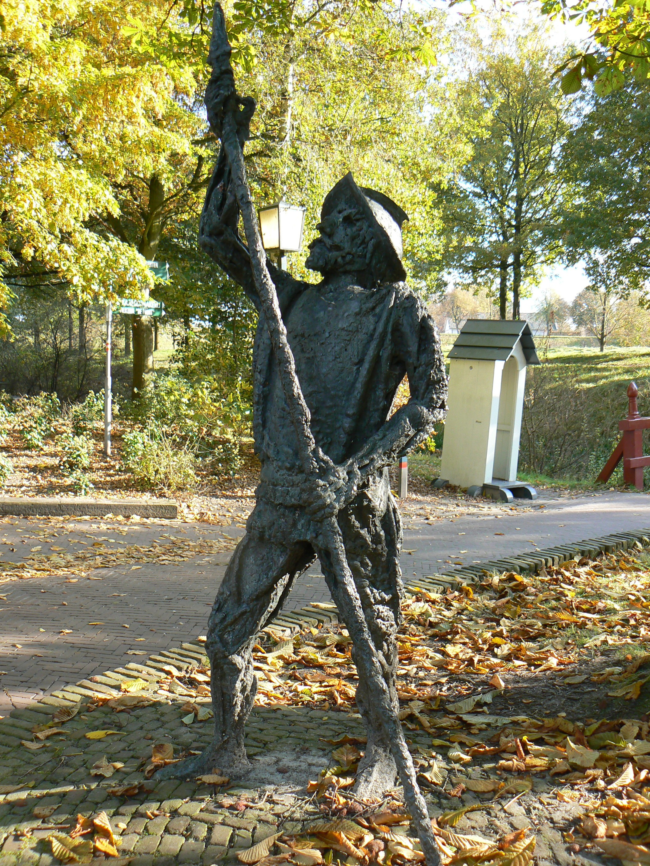 sculpture Sentinel 1985 by Hans Mes in Bourtange/The Netherlands